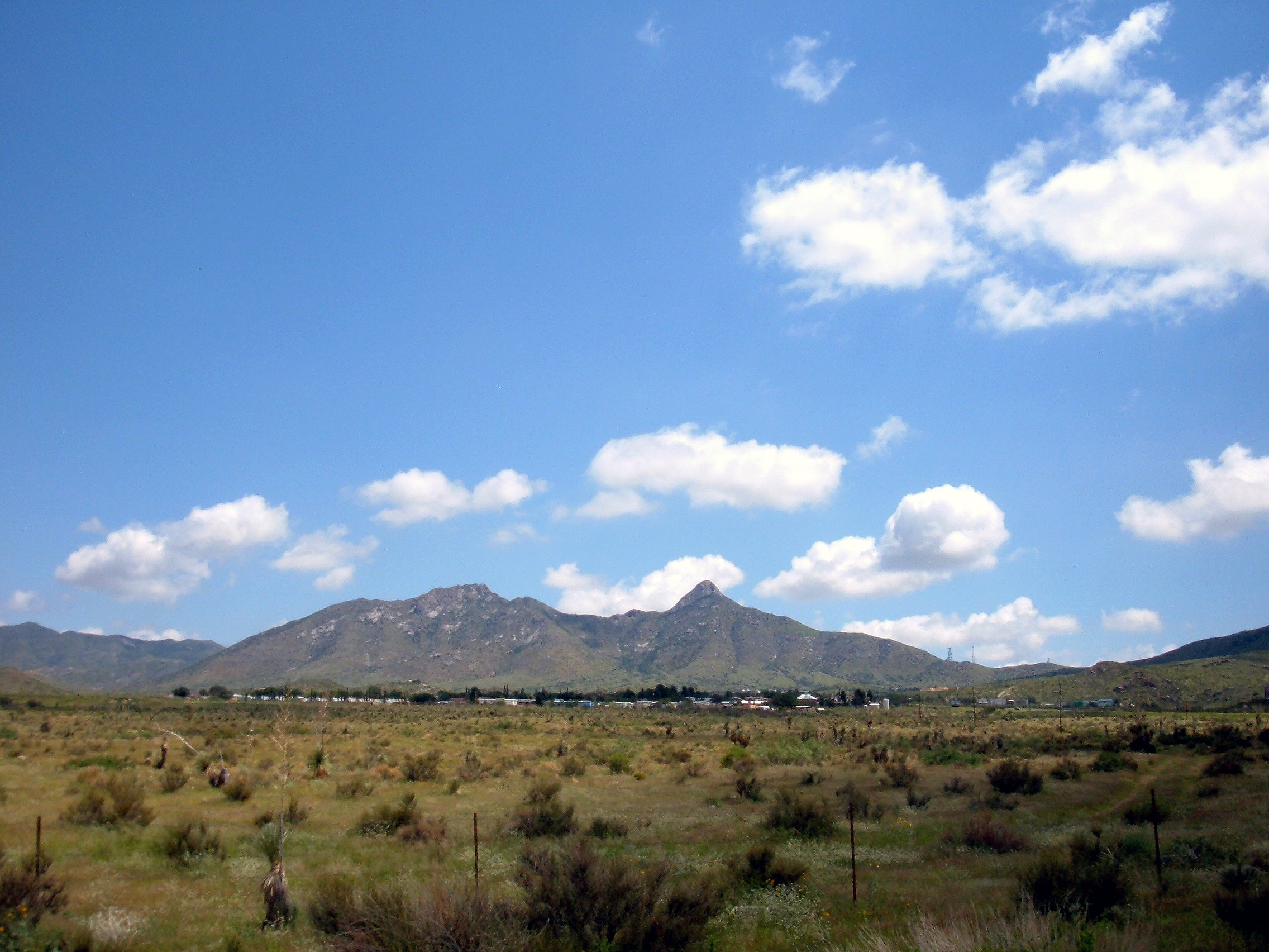 Western view of the San Andres Mountains near Las Cruces, New Mexico. The settlement of Organ is at the base of the mountains. Photographed from NASA Road near US Highway 70 in Las Cruces. This section is the terminal subrange named the San Augustin Mountains. The peak on the right is adjacent to "San Augustin Pass"; the Organ Mountains border to the south. The peak is called "San Augustin Peak", and is a conical-shaped prominance.